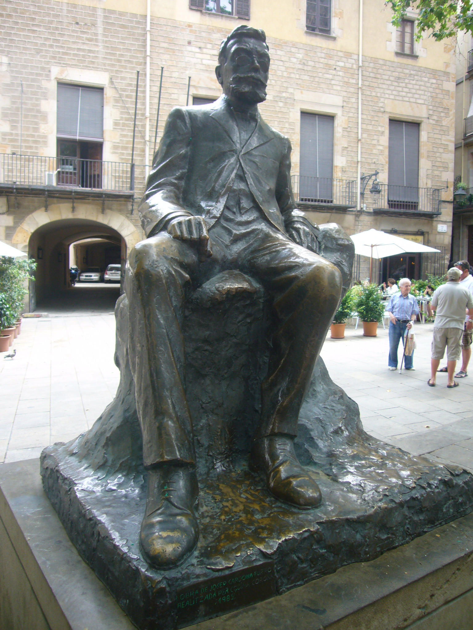 Àngel Guimerà statue (plaça de Sant Josep Oriol)